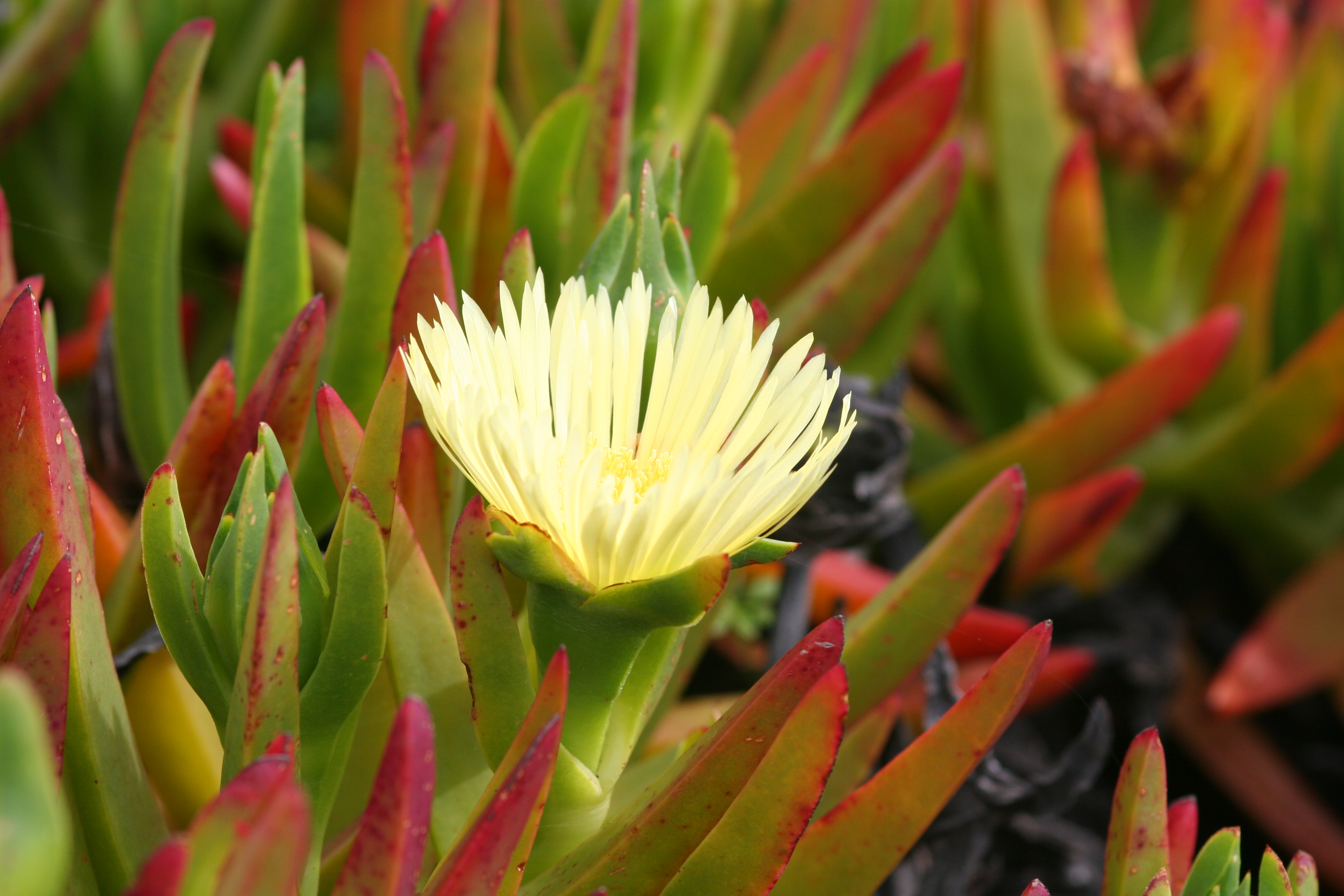 White flowers of the ice plant. Taken by me, user debivort, April 2006.